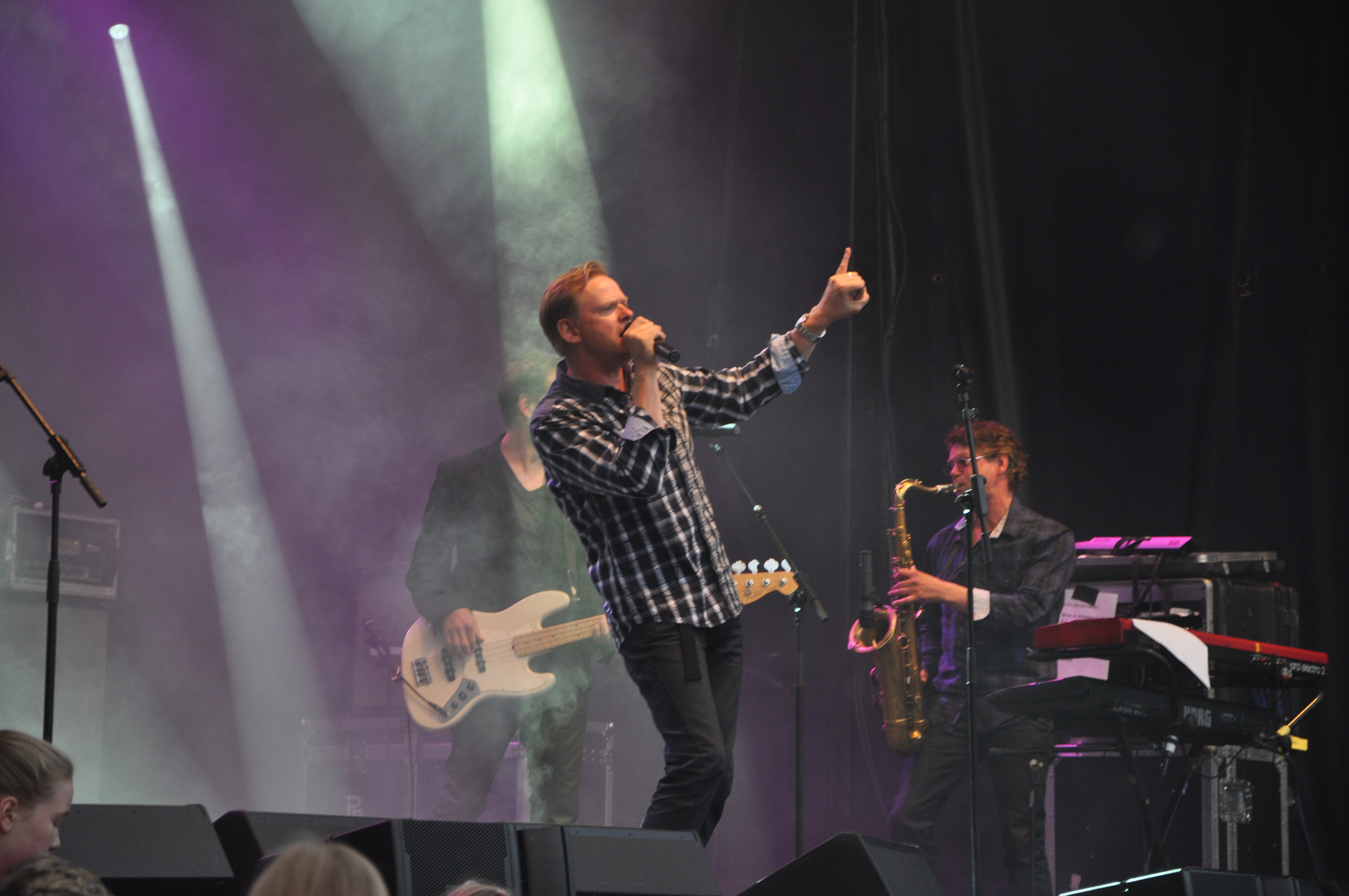 Stefán Hilmarsson á tónleikum á Menningarnótt 2012.